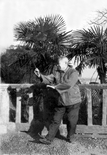 Changhai He,Grand master of Chinese Gongfu